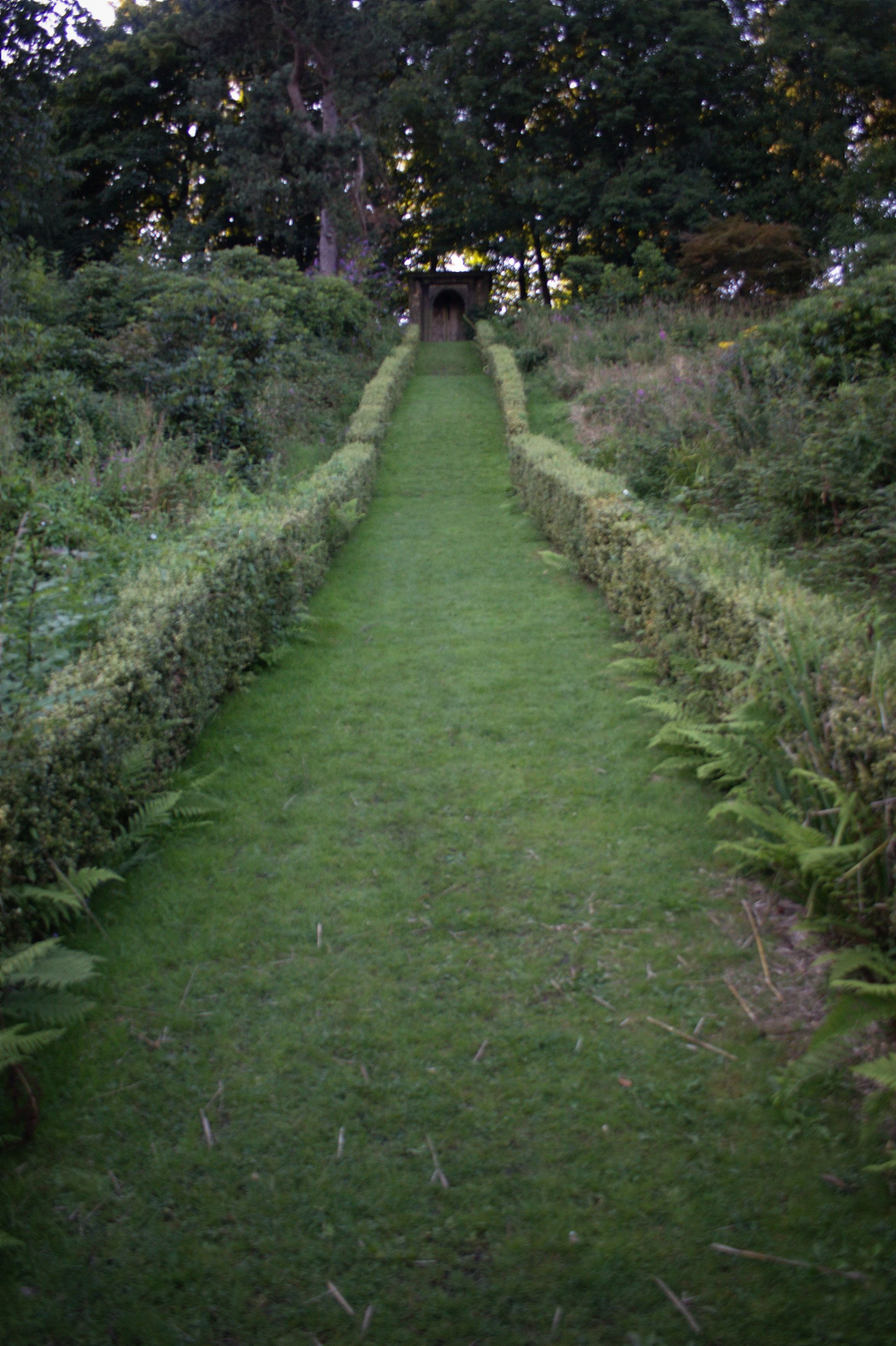 The remains of the grass walkway/staircase at Philips Park